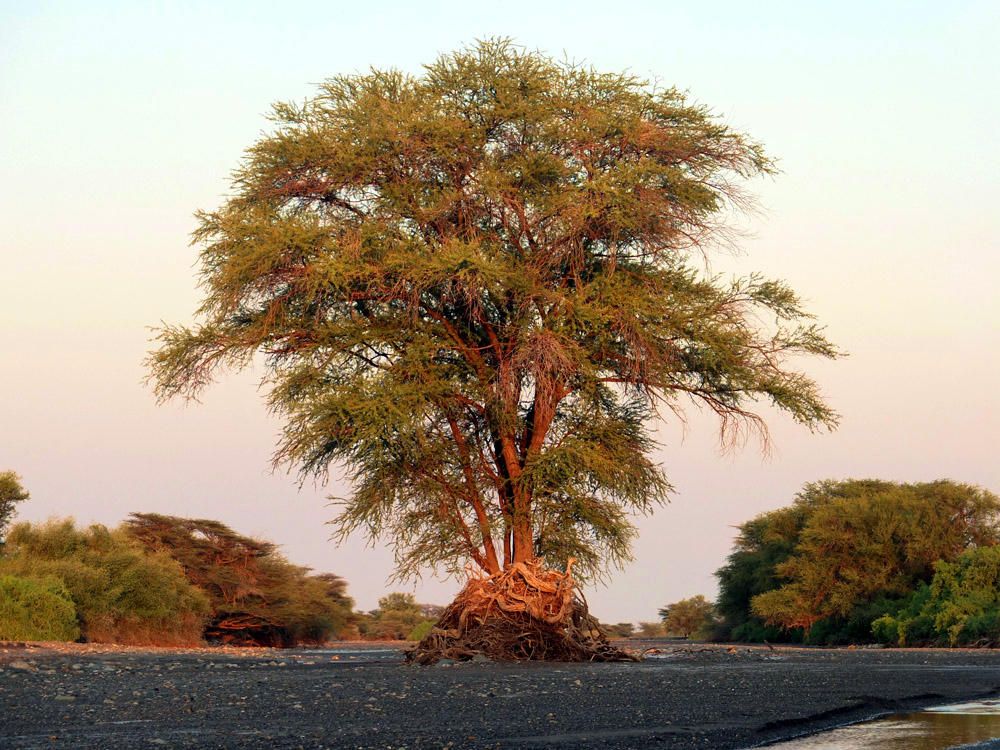 An Acacia tree at sunset in the Kokiselei river, Turkana County, northern Kenya.